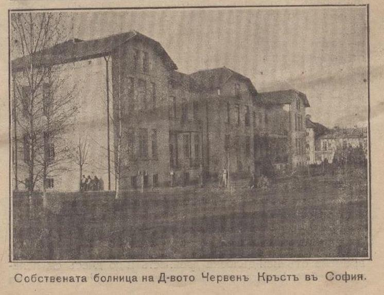 The own hospital of the Bulgarian Red Cross, photo scanned from the "Izvestia" edition of BRC, year 1, vol. 3, 1916